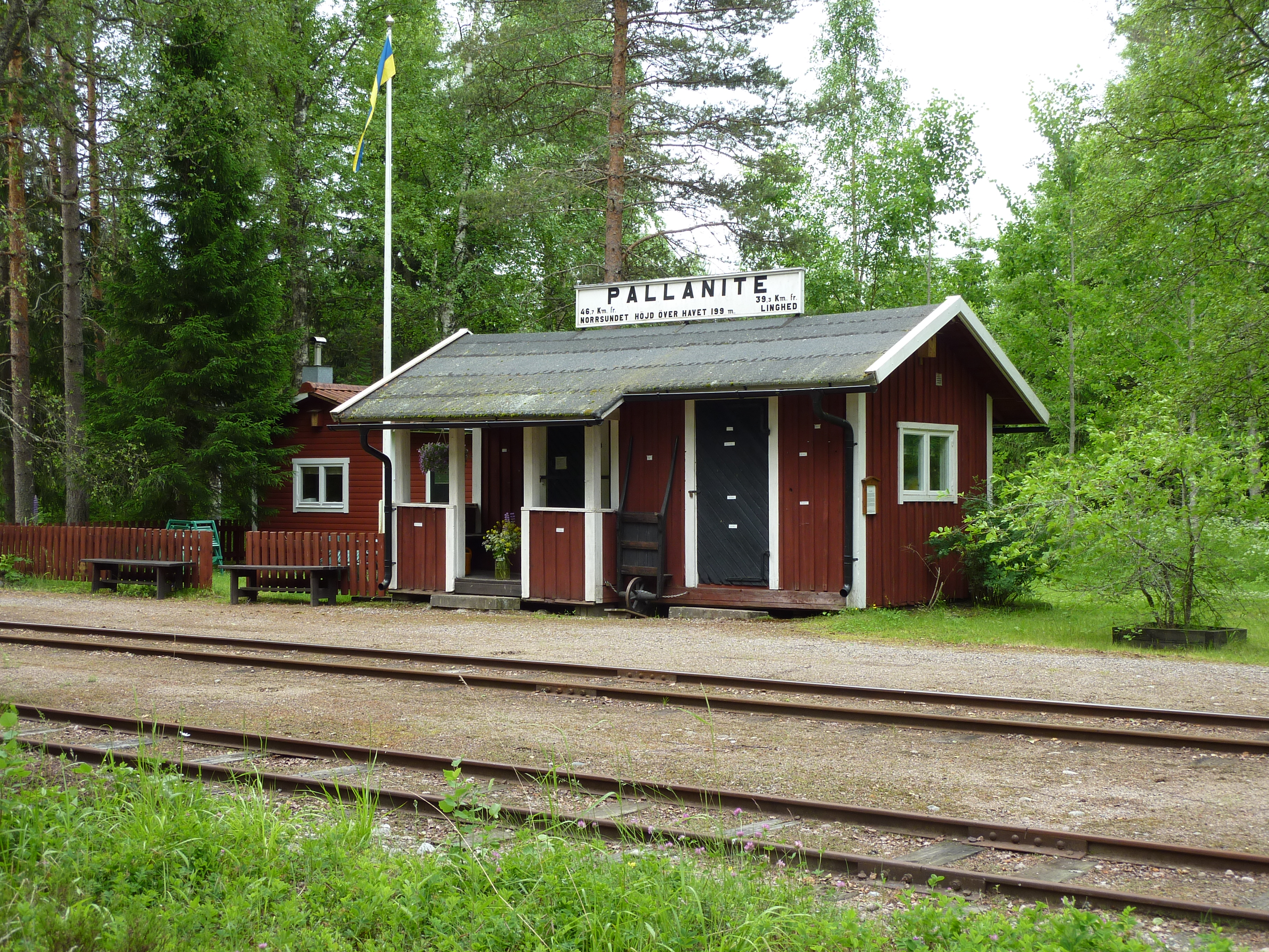 Railway station Pallanite at Jädraås-Tallås museum railway in Sweden